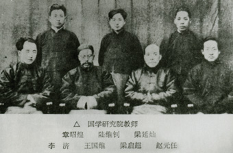 The Teachers in Tsinghua. Took in 1925.